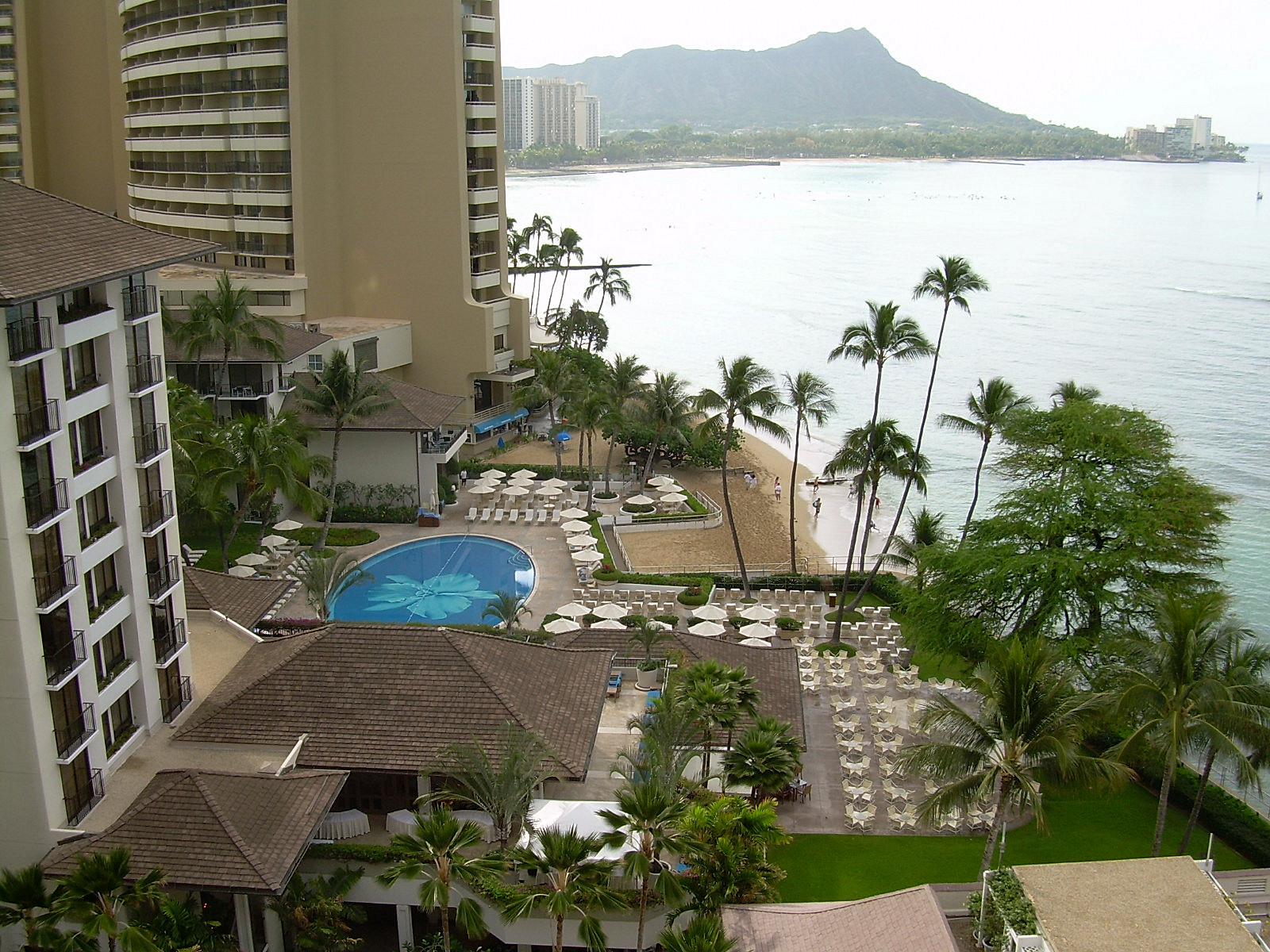 View of pool area from a balcony of the Halekulani Hotel in Honolulu, Hawaii.